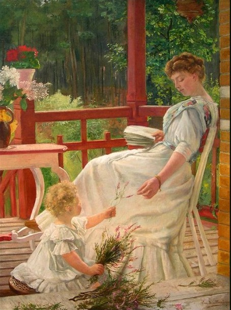 The terrace by Émile Pierre de La Montagne